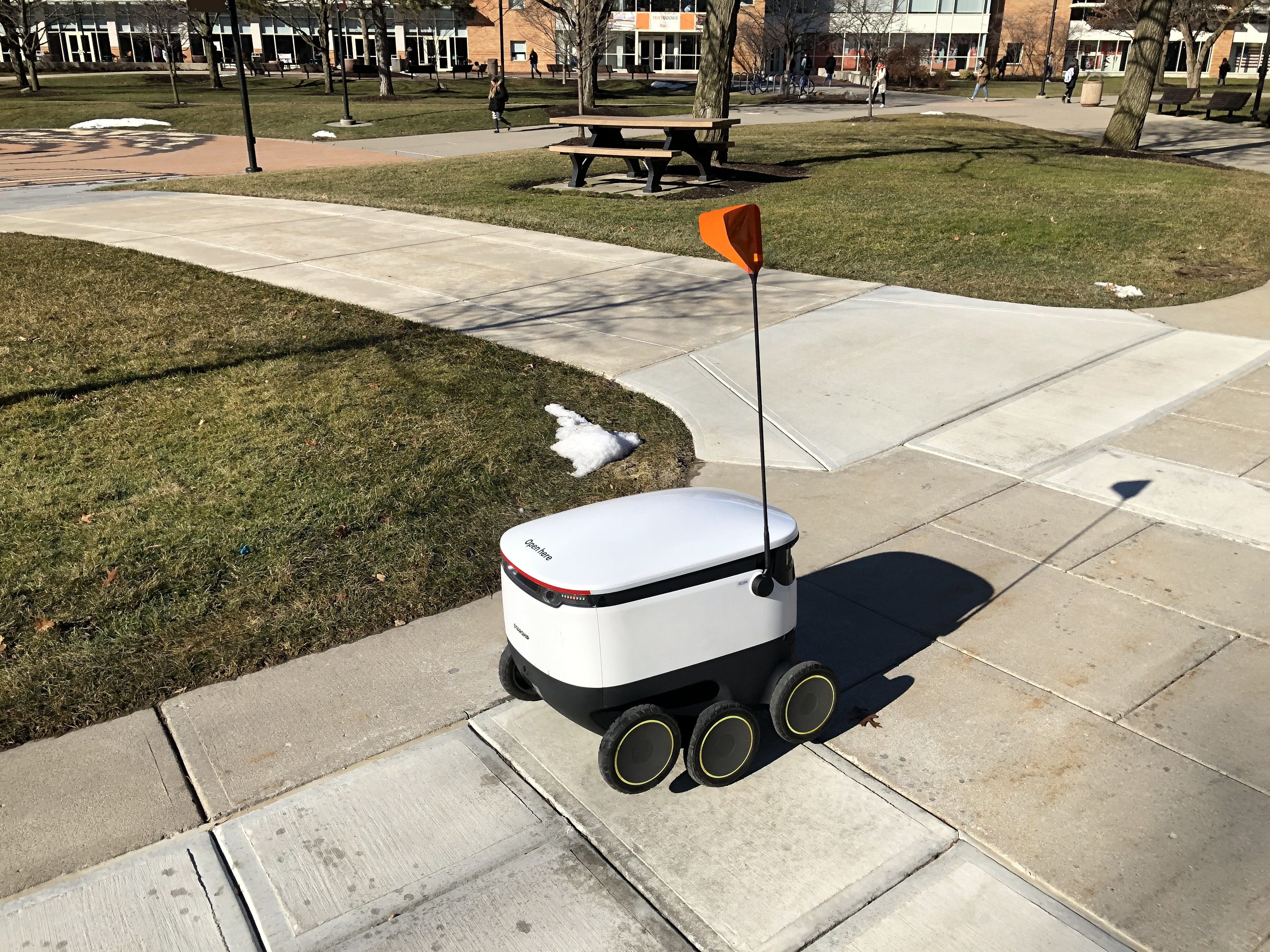 A starship robot on the BGSU campus.